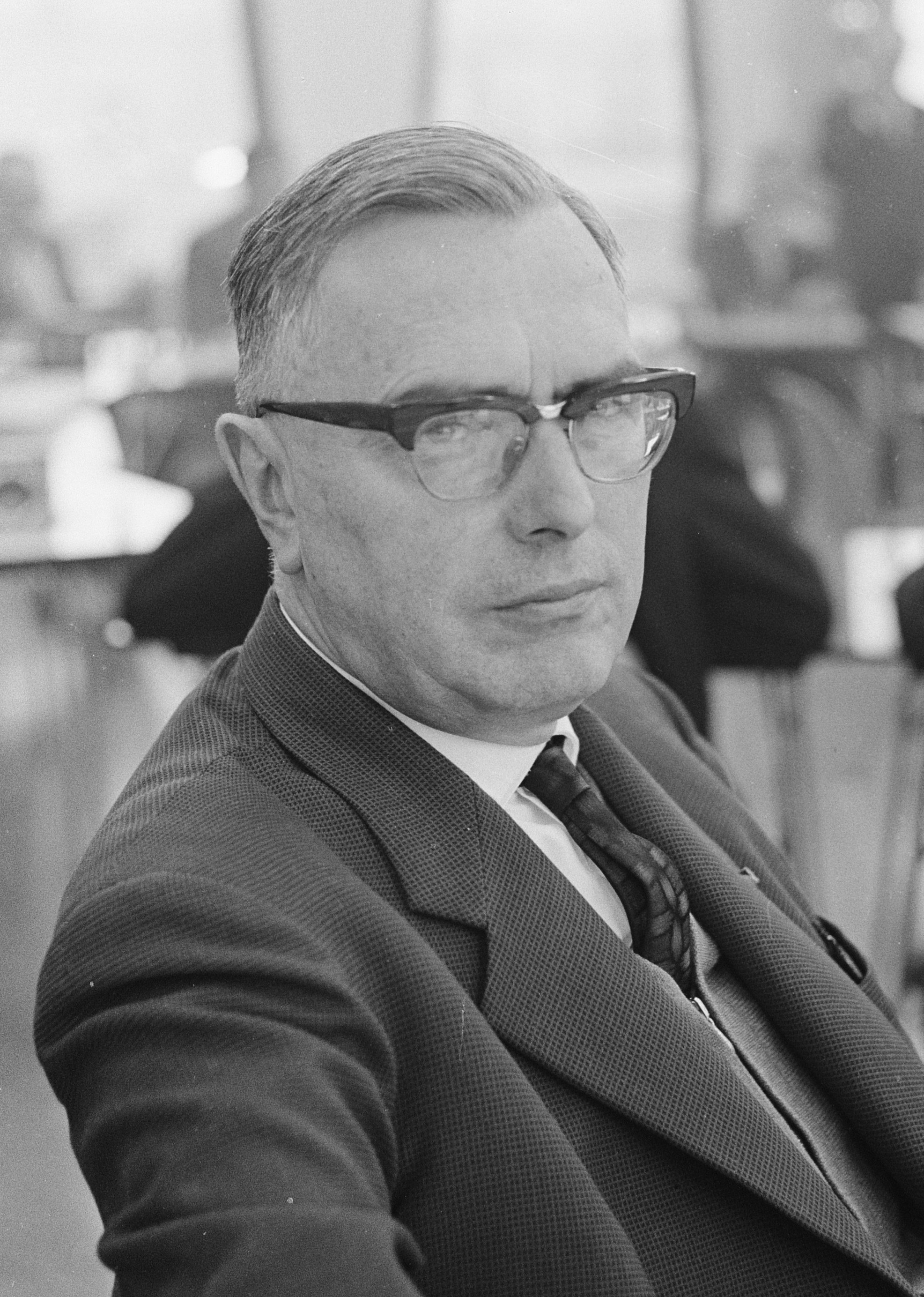 Max Euwe